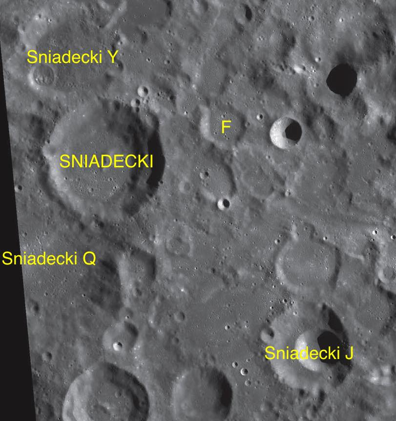 Part of the chart LAC-105 used for the presentation.